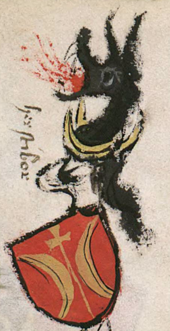 Polish coat of arms Ostoja in Codex Bergshammar